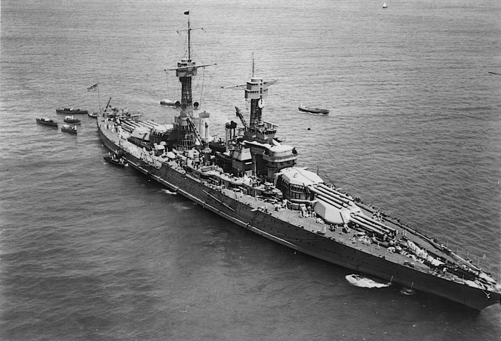 A U.S. battleship, most likely either USS Tennessee (BB-43) or USS California (BB-44) at anchor, in the 1920s.